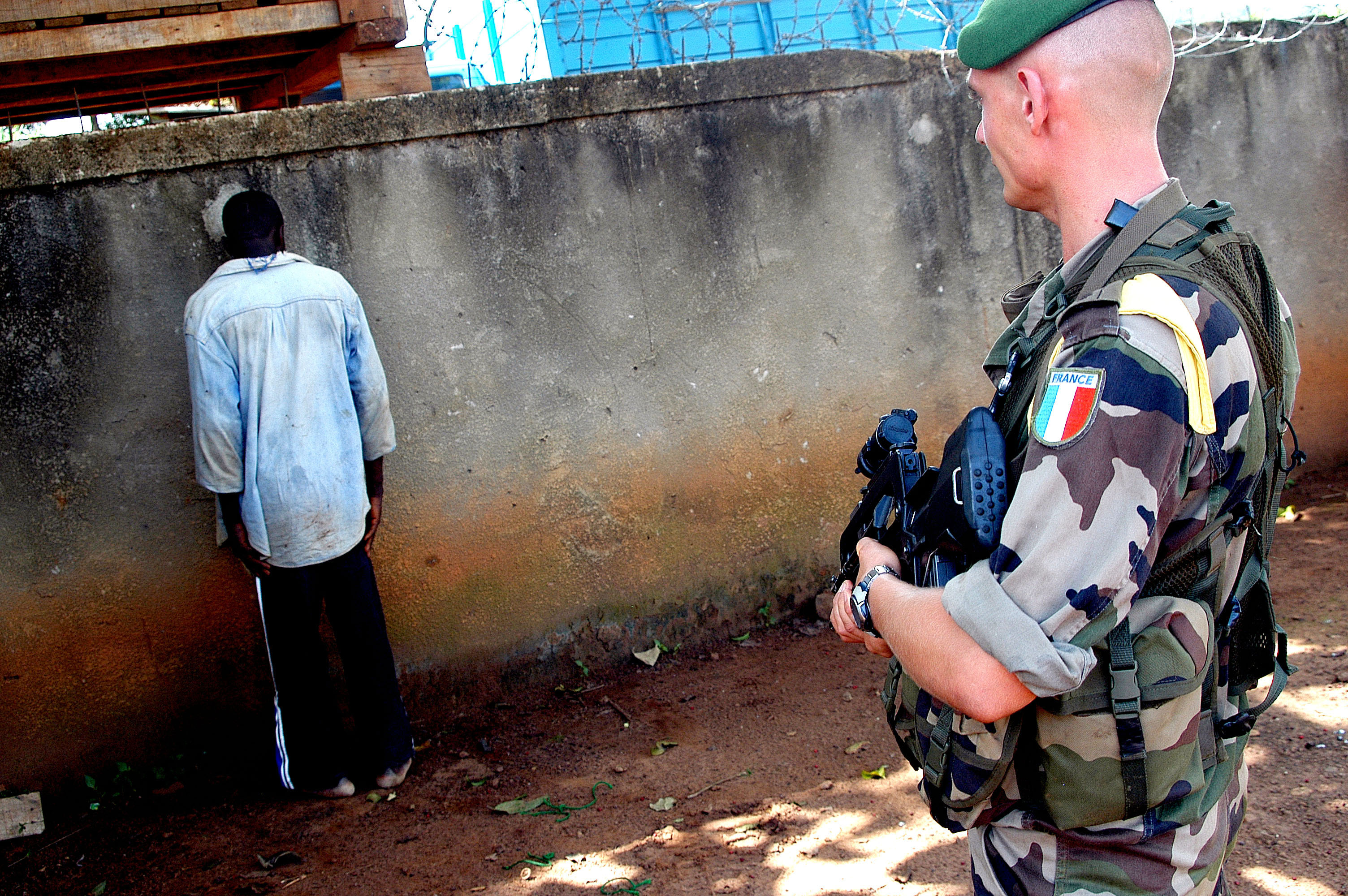 An FAFN rebel has been caught by French Foreign Legion troops while attacking locals for food and other goods needed for the war effort.